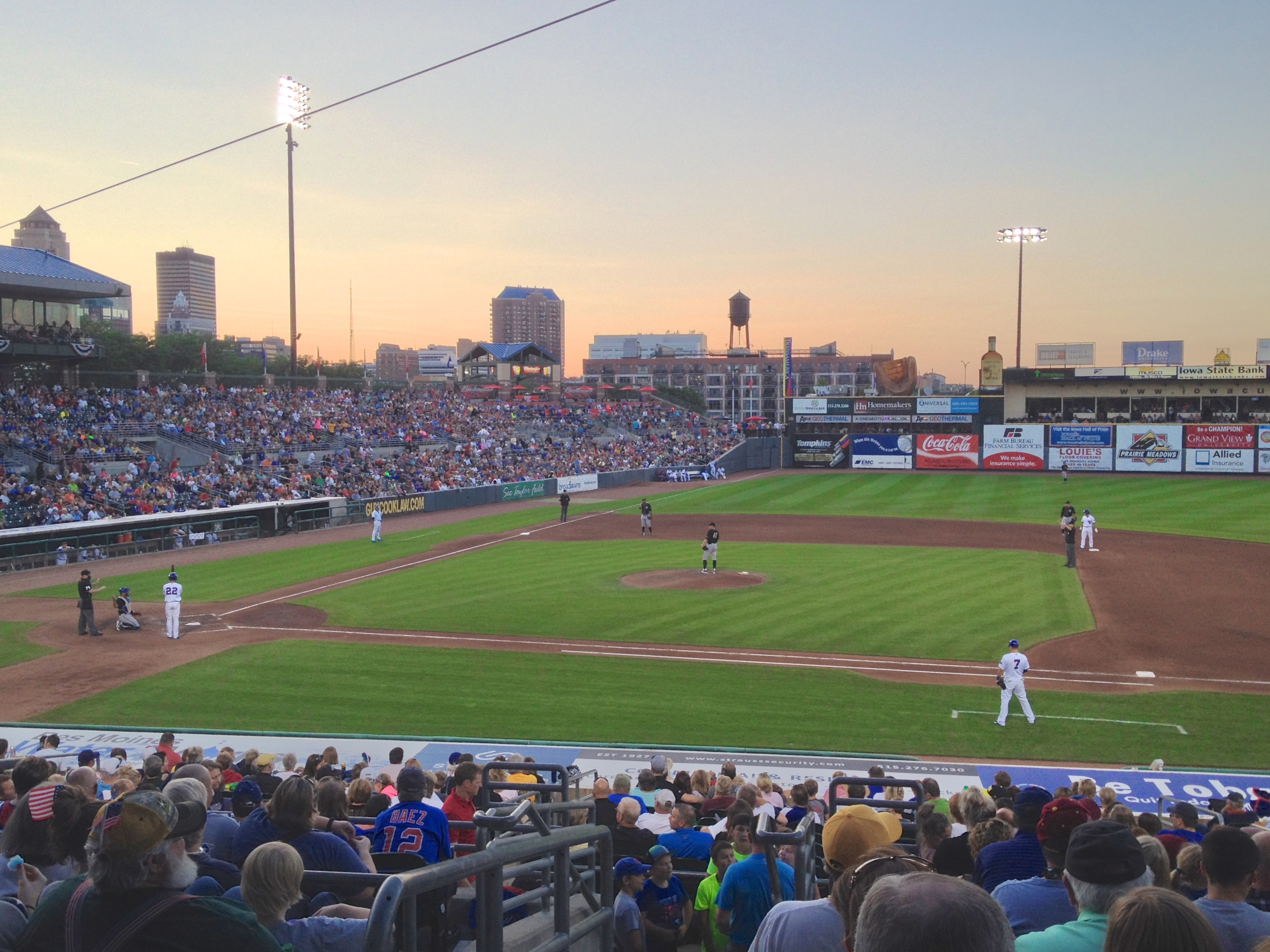 Iowa Cubs home stadium Principal Park in 2014